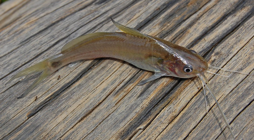 Mystus cf. nigriceps (65mm SL). From Napuh River (2°22.898’S 103°48.907’E), Bayung Lencir, Musi Banyuasin, Province of South Sumatra, Indonesia